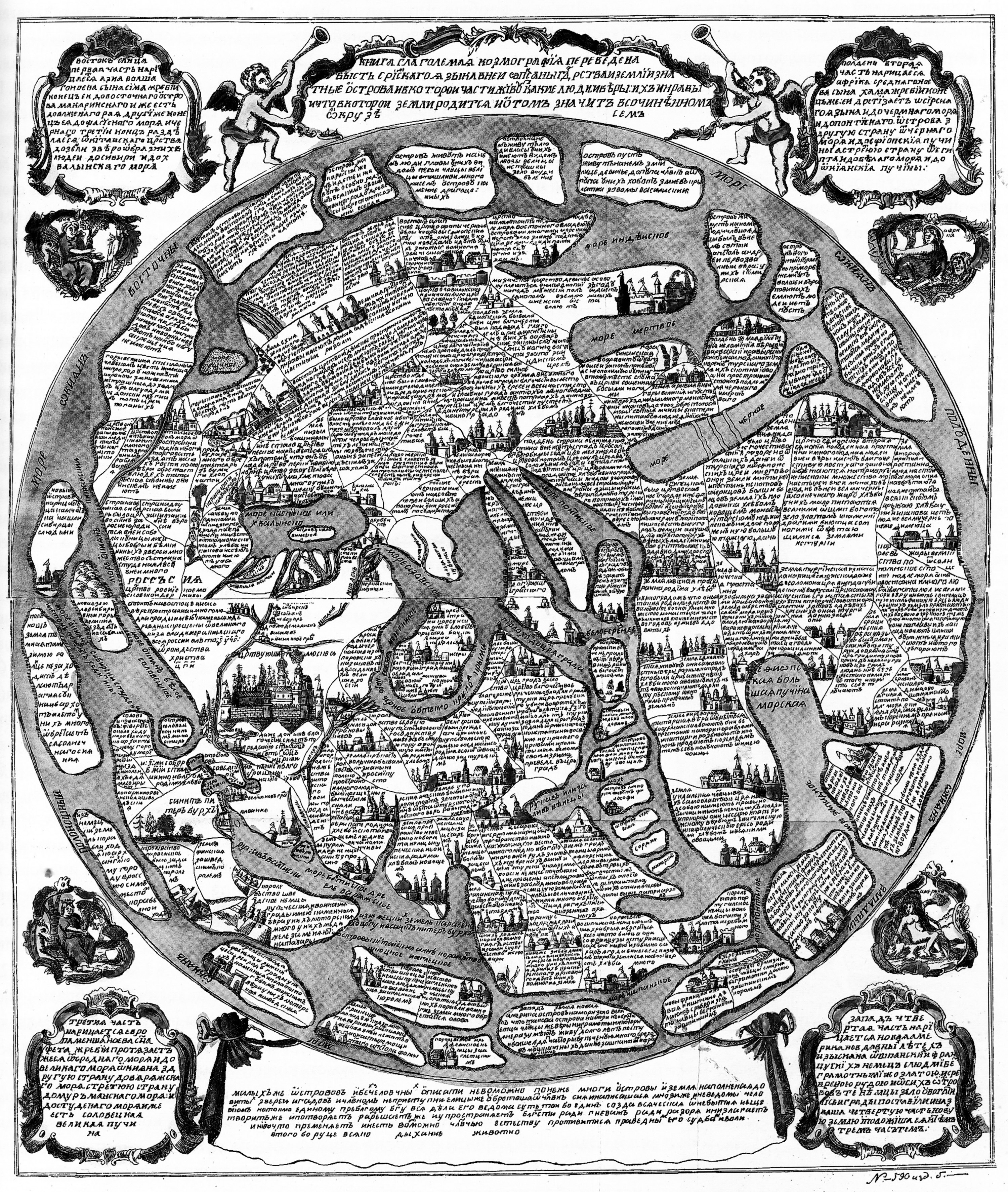 Russian Cosmography lubok engraving, early 18th century. North is on the left-bottom (diagonally); center of map is Constantinople, Asia Minor and Black Sea. Each compass point is clearly identified with a continent: North=Europe (Race of Yaphet), East=Asia (Race of Shem), South=Africa (Race of Kham), West=America.